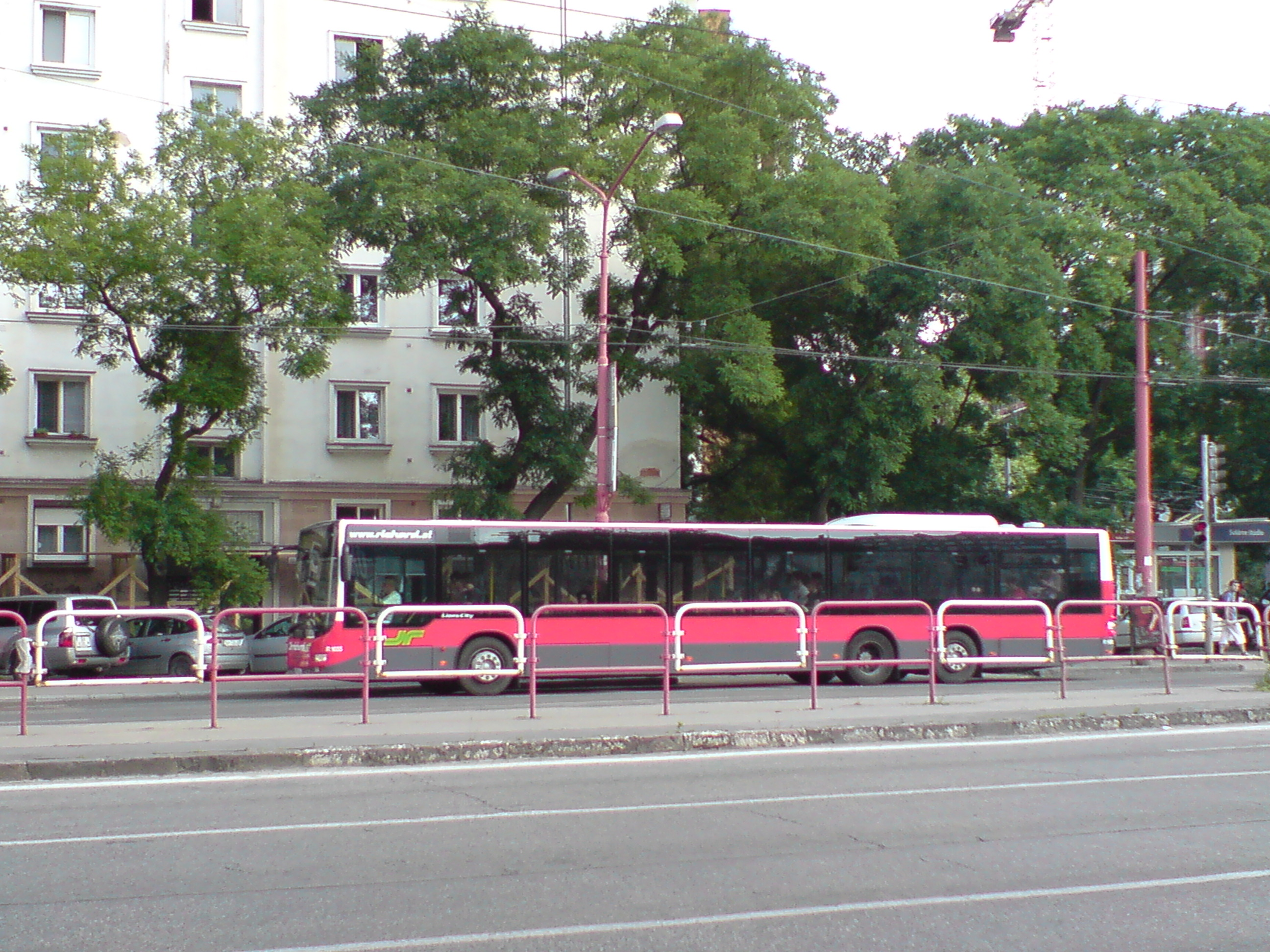 Trnavská, Bratislava. MAN NL313-15 Lion's City LL bus. Year built 2006. Albus Bratislava, s.r.o. company.